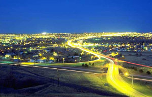 A personally-taken time lapse photograph of Great Falls, MT